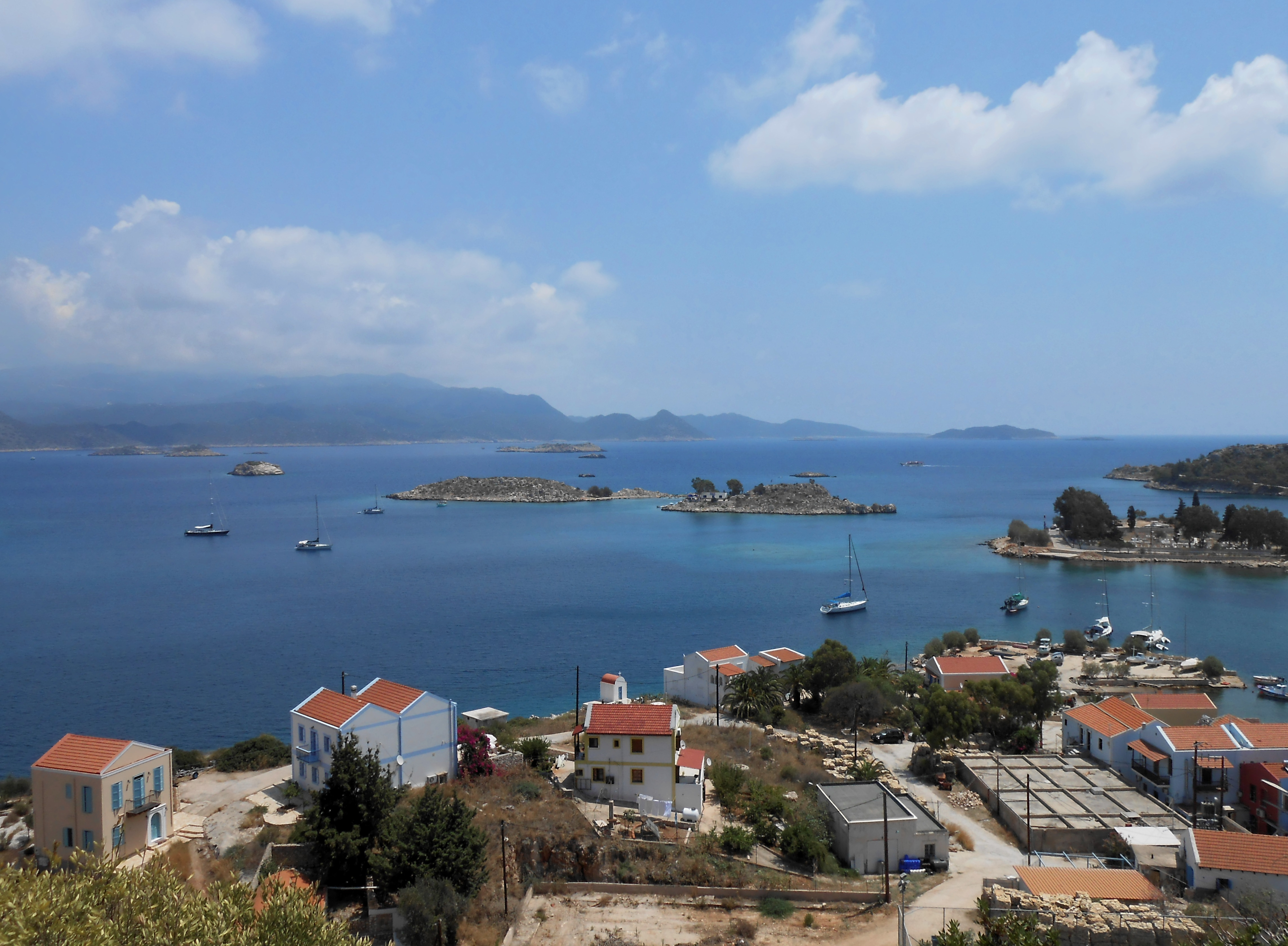 Kastellorizo Island (in Dodecanese, Greece) and some nearby rocky islets. In the photo are pictured: the islets Agios Georgios, Agrielea, Megalo Mavro Poini, Mikro Mavro Poini and Psomi. In the background, the coast and islets of Turkey are distinguished. This is a photography of Natura 2000 protected area with ID GR4210004